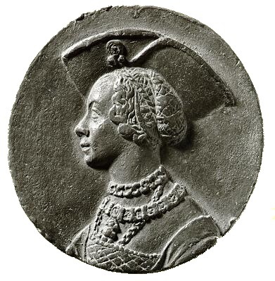 Portrait medal of Argula von Grumbach, around 1520. Photograph released into public domain (acc. to website).